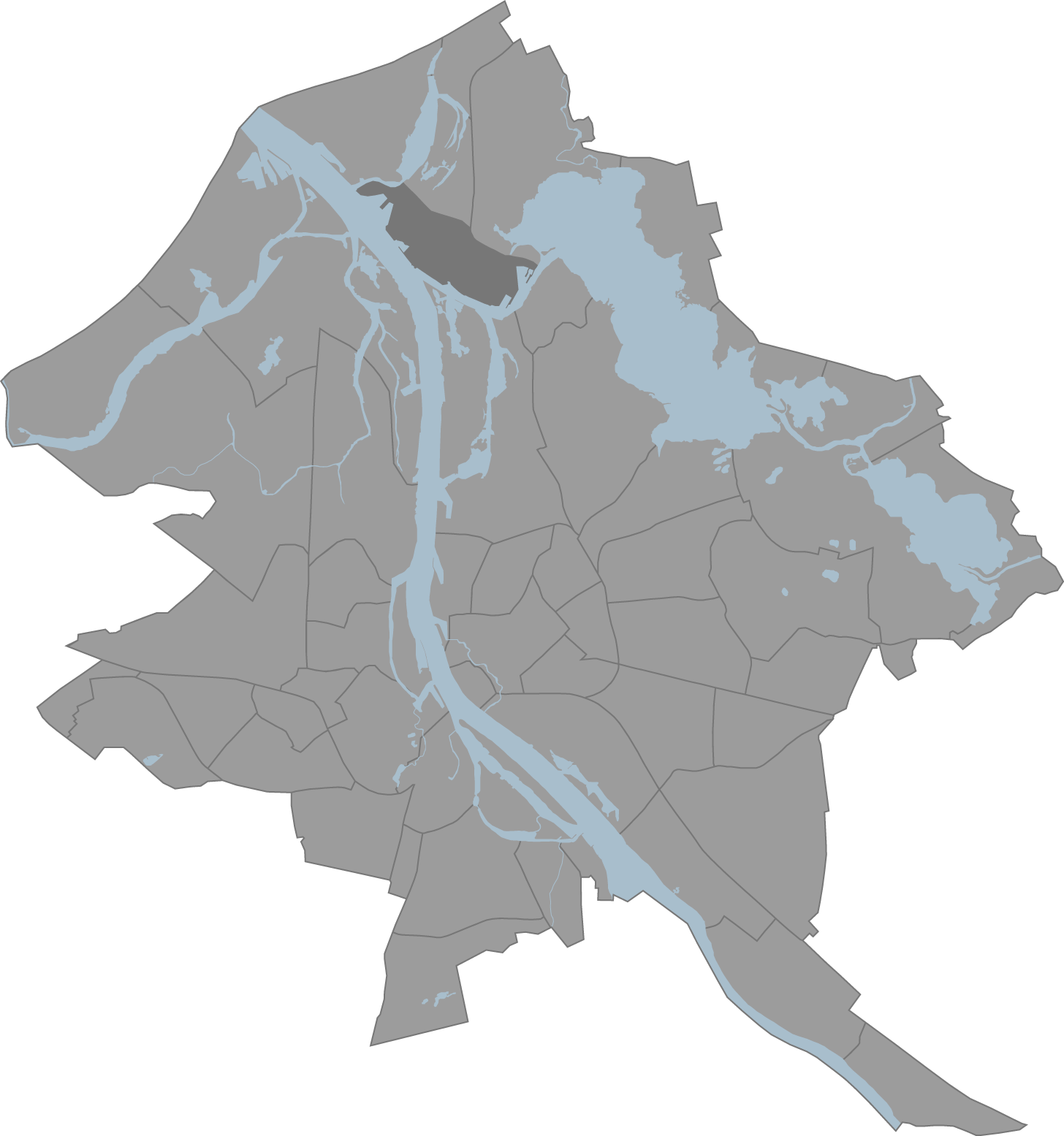 A map of Riga, Latvia with the eponymous commune highlighted